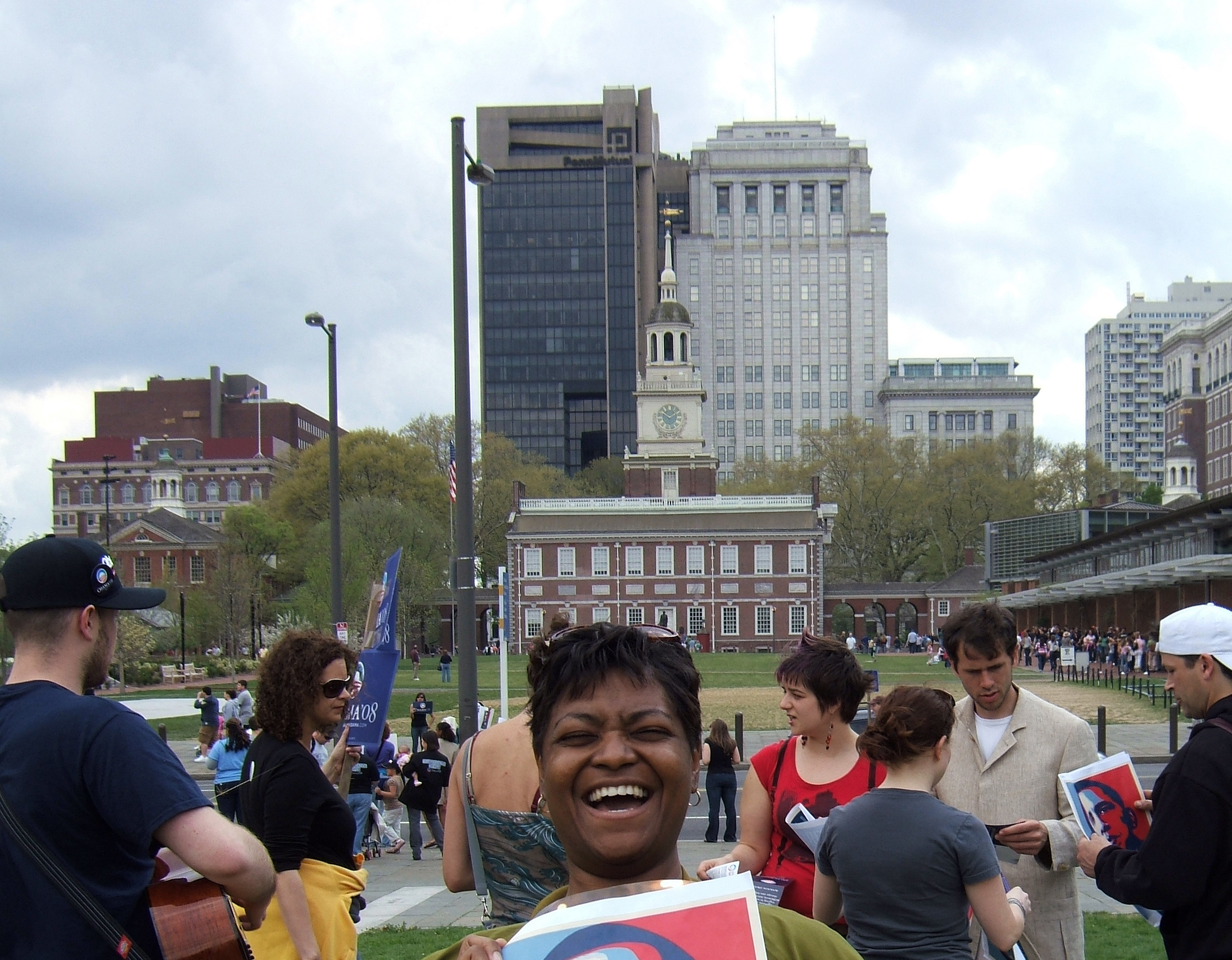 You go girl.... (Independence Hall is in the background)